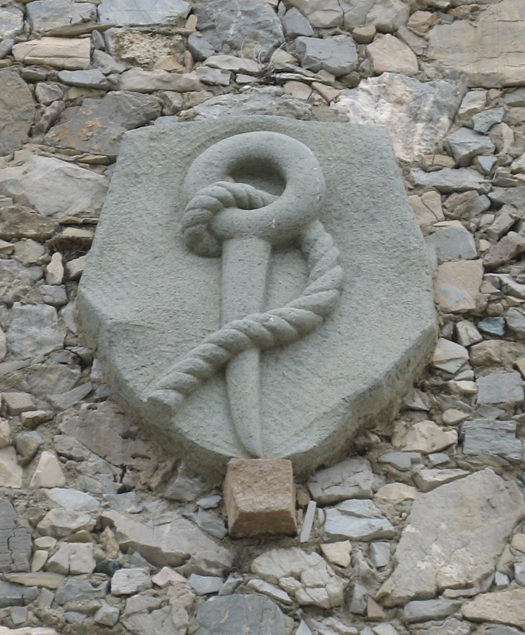 Caviglia Family Crest at the Mausoleo Del Maresciallo d'Italia Enrico Caviglia in Finale Ligure